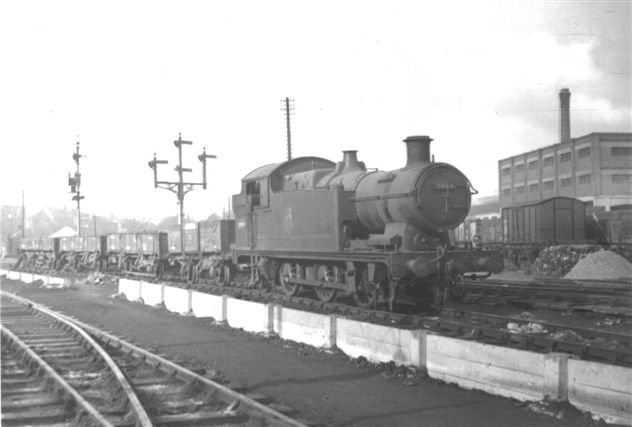 ex-GWR 56xx class 6664 at Slough